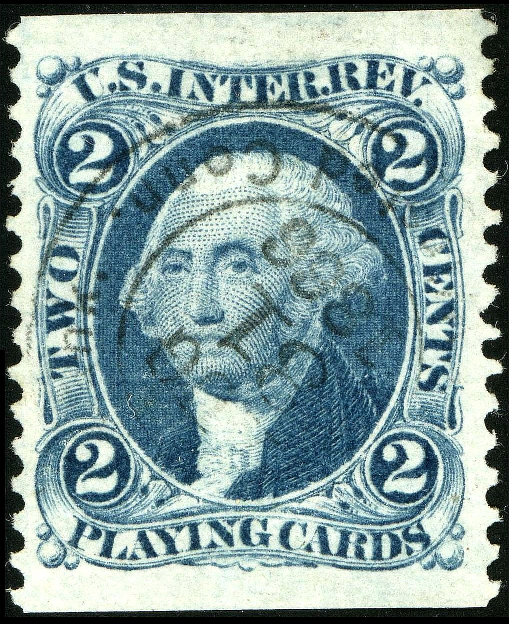 Image of U.S. Revenue stamp, for playing cards, Washington, 2c issue of 1862